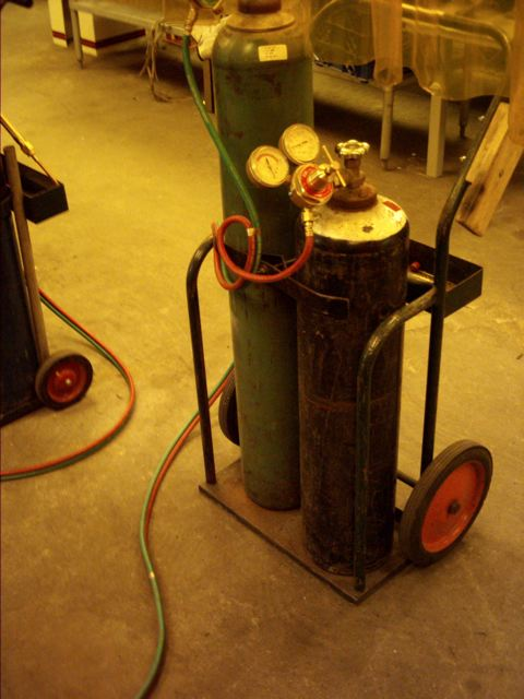 Oxy acetylene welding rig, Techshop menlo park.